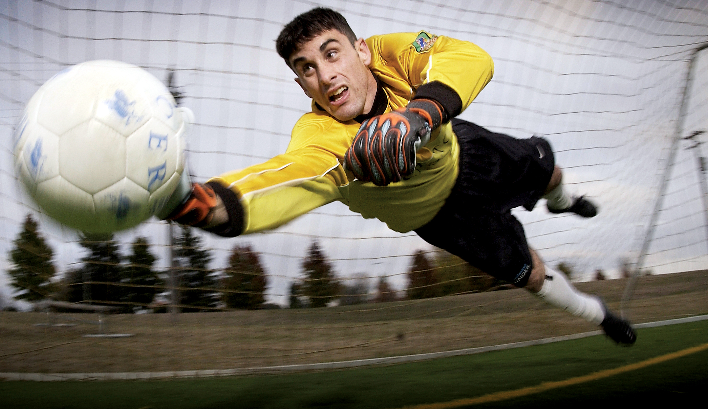 McChord Air Force Base, Washington: 1st Lt. Richard Cullen, a communications officer, plays goal keeper with the Seattle Sounders, a USL A-League team. Cullen's assignment keeps him hopping at both the wing headquarters and at Seattle Memorial Stadium.